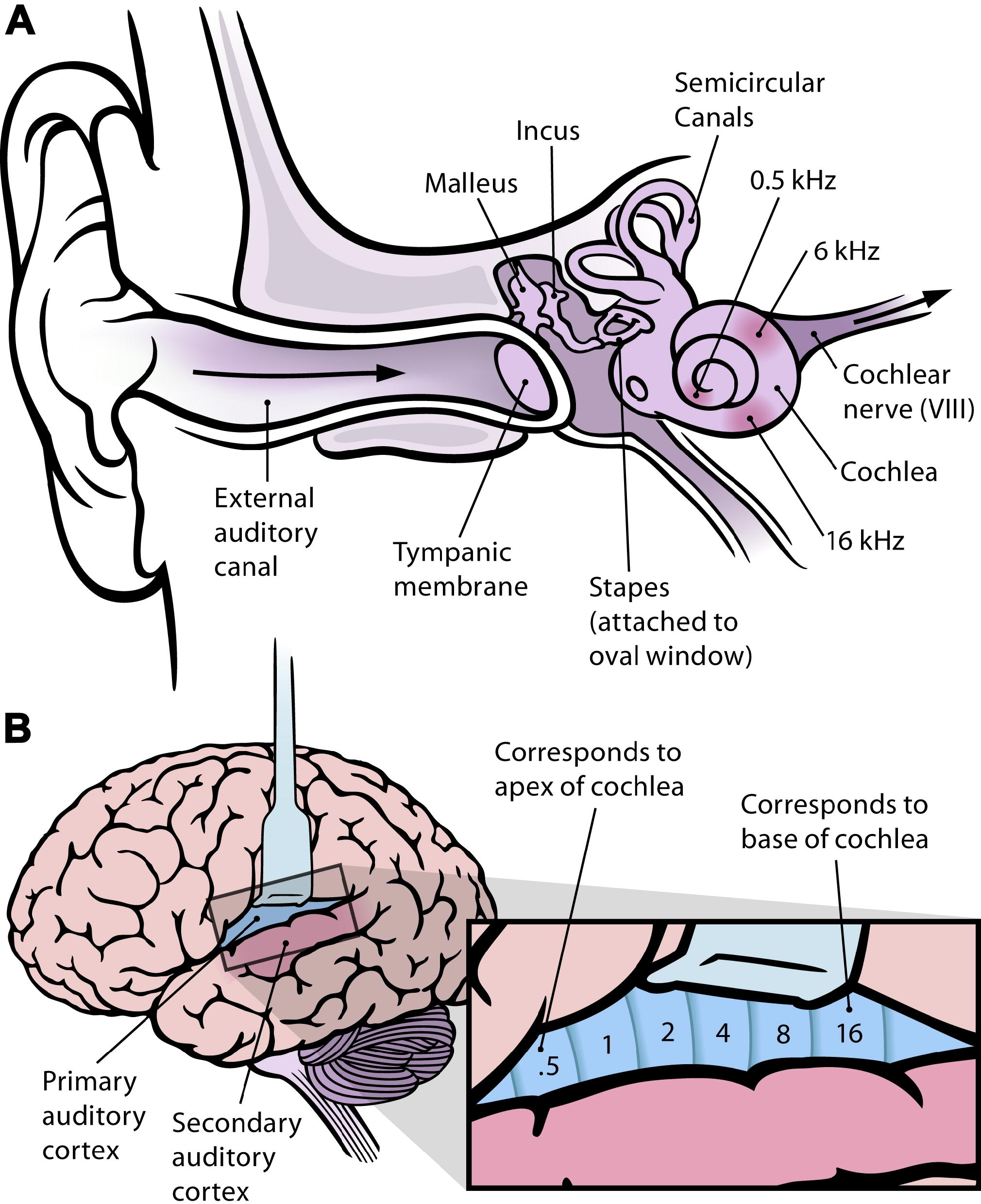 (A) The human ear and frequency mapping in the cochlea. The three ossicles incus, malleus, and stapes transmit airborne vibration from the tympanic membrane to the oval window at the base of the cochlea. Because of the mechanical properties of the basilar membrane within the snail-shaped cochlea, high frequencies will produce a vibration peak near the oval window, whereas low frequencies will stimulate receptors near the apex of the cochlea (locations for three frequencies indicated schematically). Information from the cochlear receptor cells is transmitted to the cochlear nuclei via the 8th cranial nerve, and on through the midbrain to the cortex. (Redrawn from Figure 12.3 in [11].) (B) Lateral view of the human brain, with the auditory cortex exposed. The primary auditory cortex contains a topographic map of the cochlear frequency spectrum (shown in kilohertz). (Redrawn from Figure 12.15A in [11].)